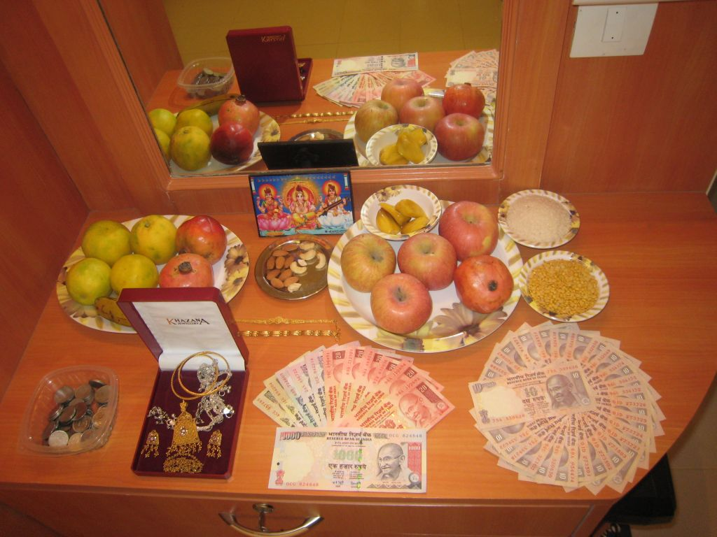 Tamil new year